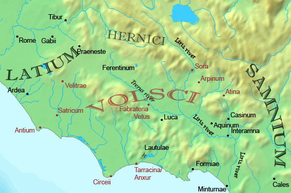 Taken from English Wikipedia. The work of User:Semperf. He made it and he released it to public domain. Image:Volsci.jpg